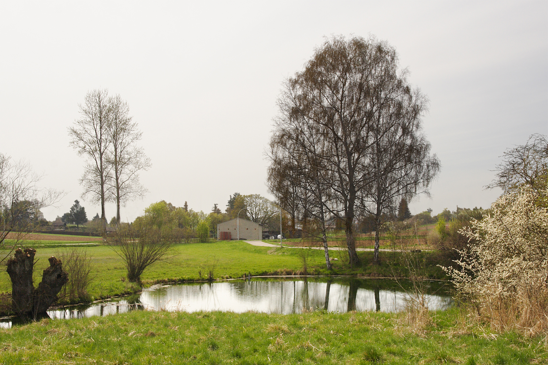 karst spring of river Nau at the western border of Langenau, Swabian Alb (for the geotope „Karst Spring Grimmensee“ in the middle oft he wetland „Schwäbisches Donaumoos“ see the photo: Image:Quelltopf-Grimmensee_Langenauer-Ried_Karstquelle_Schwaebische-Alb.jpg). The area next after Ulm/Langenau is a permanent wetland of ca. 7,5x15 km, devided by the border Baden-Württemberg and Bavaria. In this area the meltwater of the pleistocene river Upper Danube transported gravel, over time forming gravel beds of enormous size, functioning as a groundwater reservoir, which kept the surface a wetland. This kind of “full water tub” contains the karst waters of the southeastern Swabian Alb, mainly from river Lone and its dry valley-tributaries. This river network meanwhile percolates ca. 80% of its precipitation underground to the wetland area of the Danube. Four large karst springs in Langenau, the biotope/geotope]/natural monument Grimmensee, the Naturschutzgebiet “Langenauer Ried”, „Leipheimer Moos” and “Gundelfinger Moos” are legally protected.